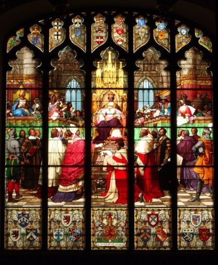 The Great Window in Parliament Hall The window was installed on 1868 and consists of 8,000 pieces of stained glass covering 390 square feet. It depicts the founding of the Court of Session in 1532 and shows King James V presenting the Charter of Institution and Confirmation by Pope Clement VII to the first Lord President. On the right of the King is his mother Queen Margaret widow of King James IV. Photography not normally permitted but taken during an 'Open Doors Day'.